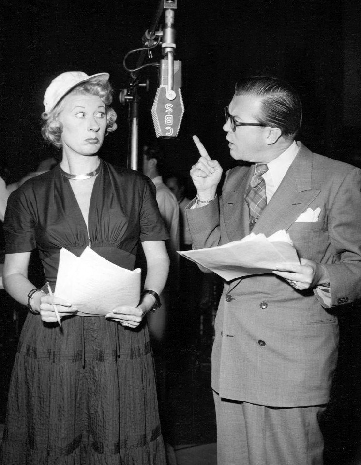 Photo of Joan Davis and Joseph Kearns from the radio program Leave it to Joan. Davis had the title role, while Kearns played her radio Dad.